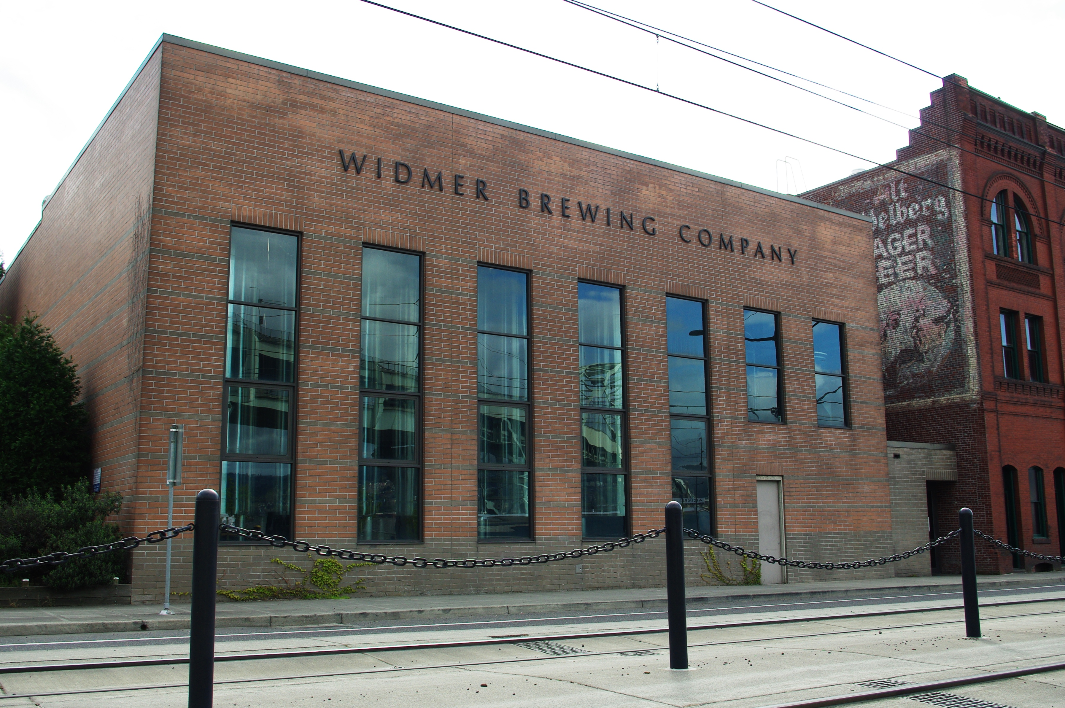 Company headquarters of Widmer Brothers Brewery on North Interstate Avenue in Portland, Oregon.